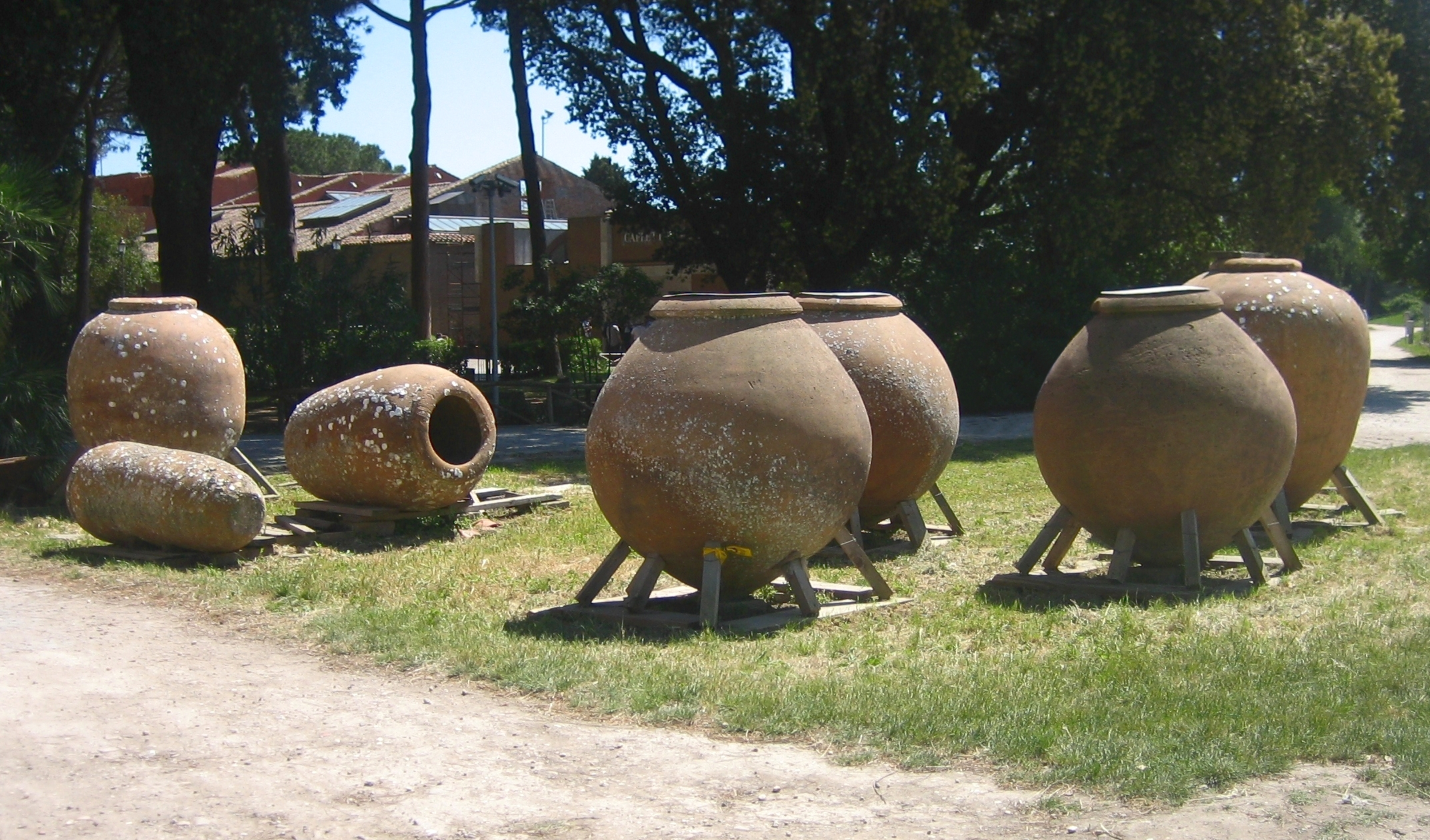 Dolia in the excavation area of Ostia Antica in Italy.